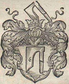 Topór coat of arms by Bartłomiej Paprocki published in "Gniazdo cnoty.."